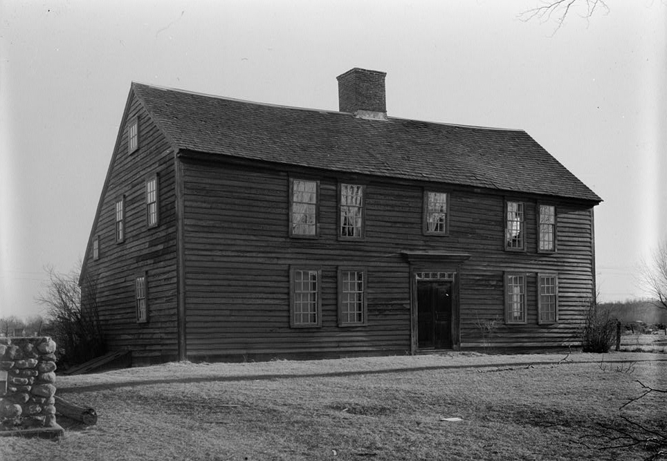 Thomas Lee House, East Lyme (New London County, Connecticut).